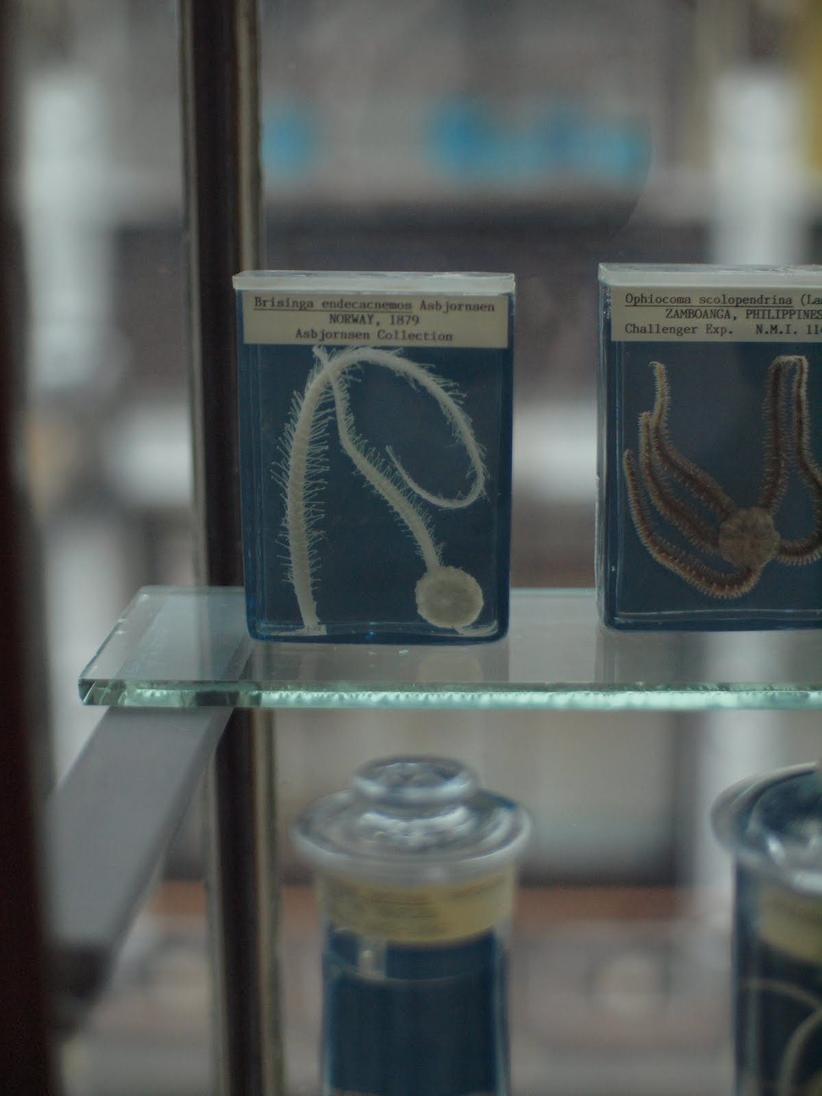 Items relating to Peter Christen Asbjørnsen from the collection of the Natural History Museum, Dublin, purchased in 1879. Specimen of Brisinga endecacnemos collected and named by Asbjørnsen.